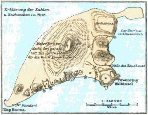 Map of Bennett Island, drawn by Friedrich Seeberg of the Russian polar expedition of 1900-1902.